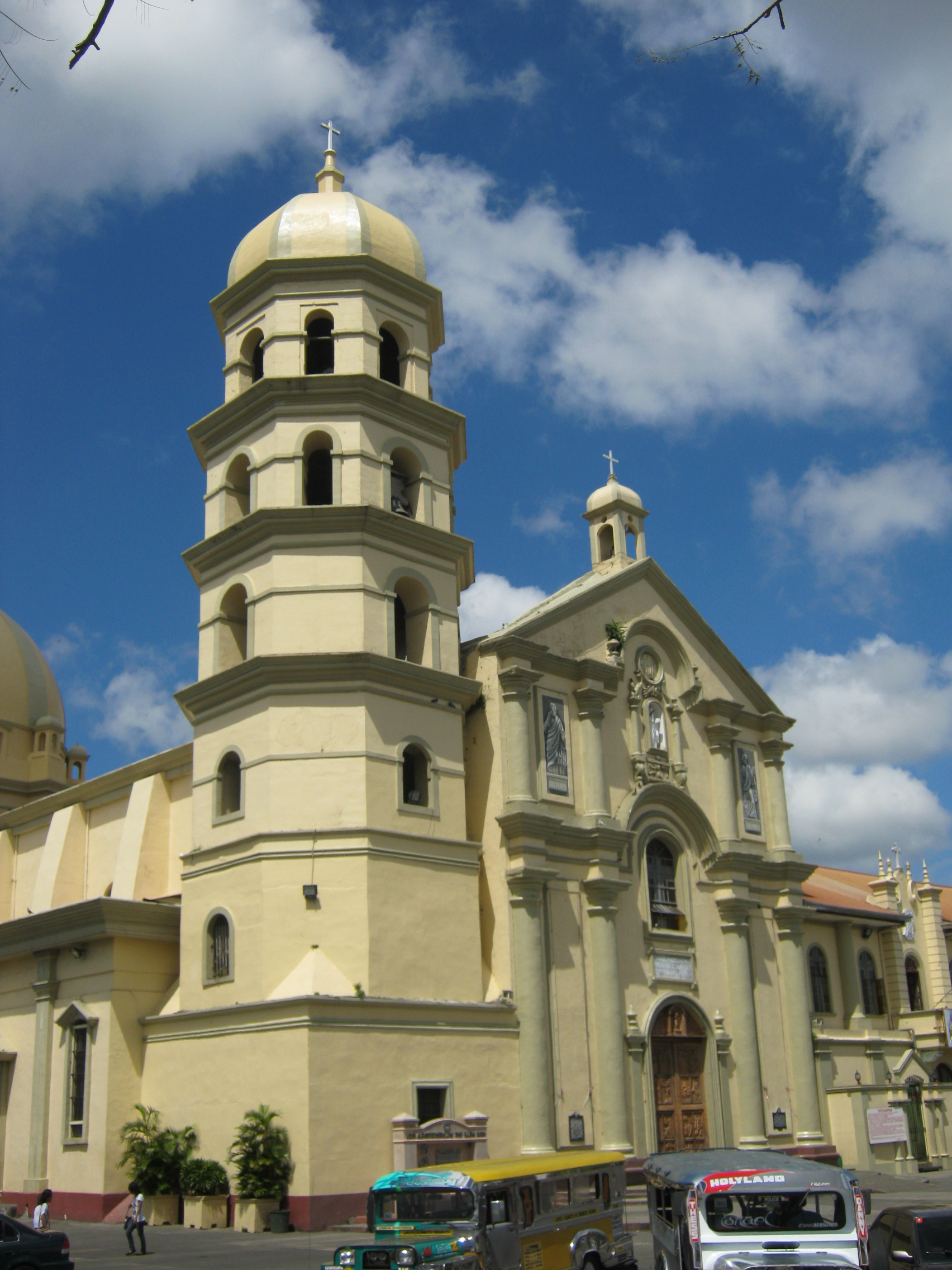 The seat of the Archdiocese of Lipa